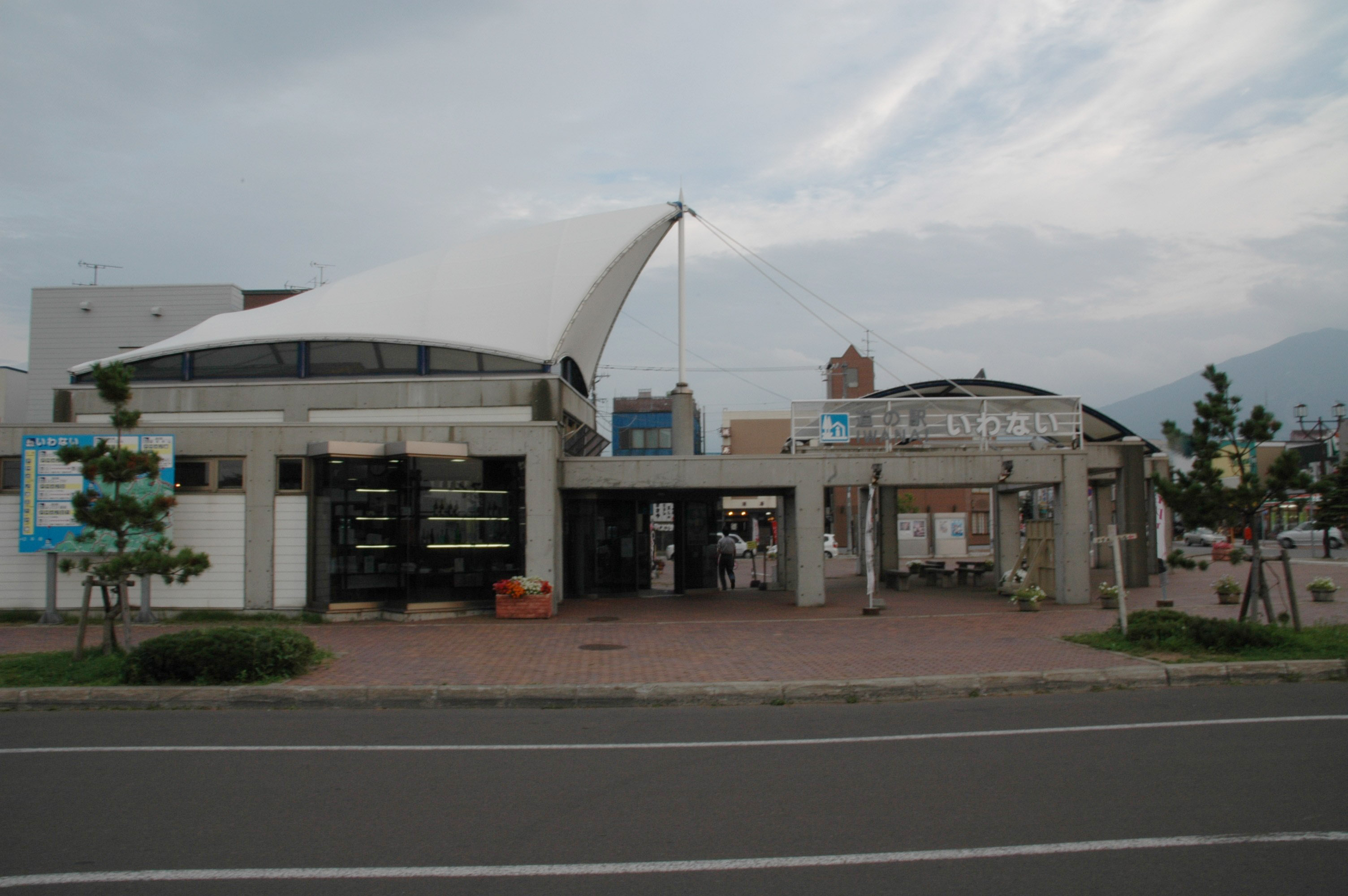 Iwanai, Michinoeki, Hokkaido, Japan on September 2005. 道の駅いわない (2005年9月撮影) Photographer ほくなん, this work is in PD